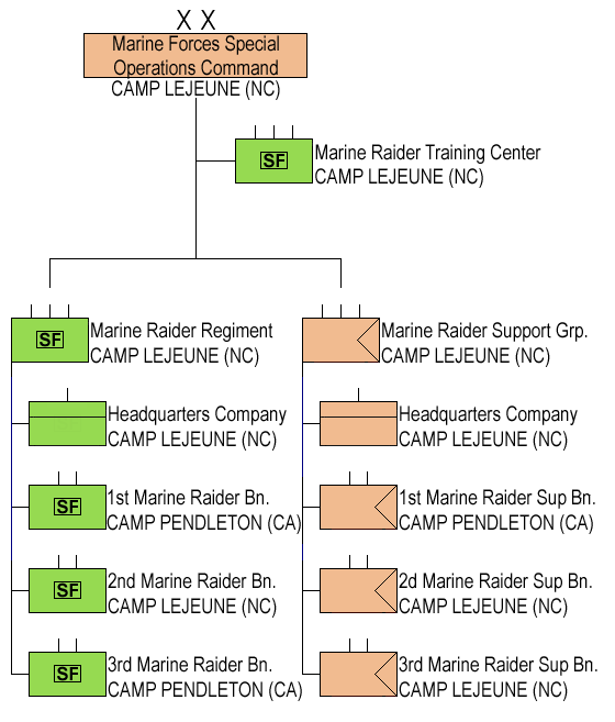 United States Marine Corps Forces Special Operations Command Order of Battle chart